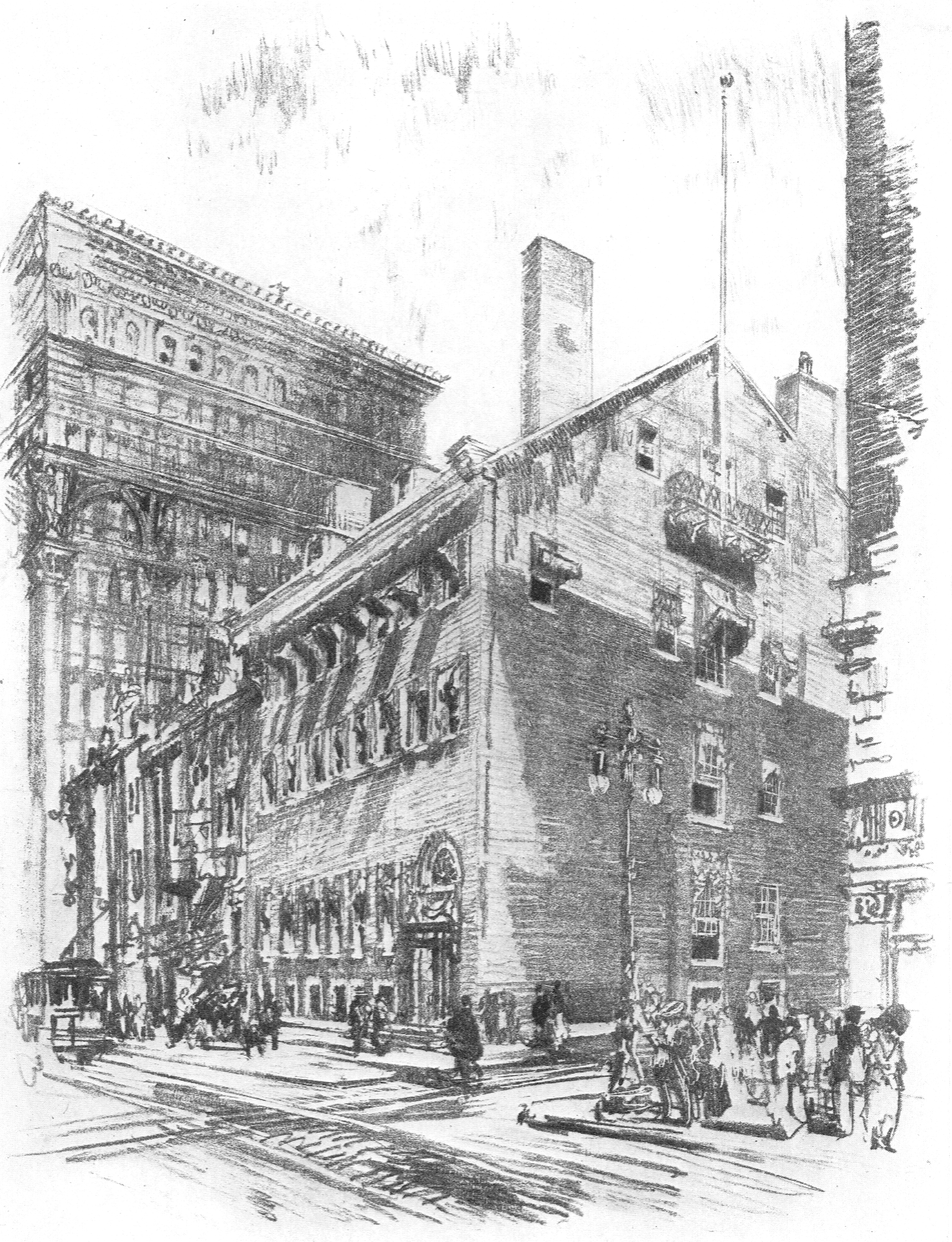 Image of p. 141 from Our Philadelphia (1914) by Elizabeth Robins Pennell and Joseph Pennell. Scanned at 600dpi from an original copy. Caption: "THE PHILADELPHIA CLUB THIRTEENTH AND WALNUT STREETS"